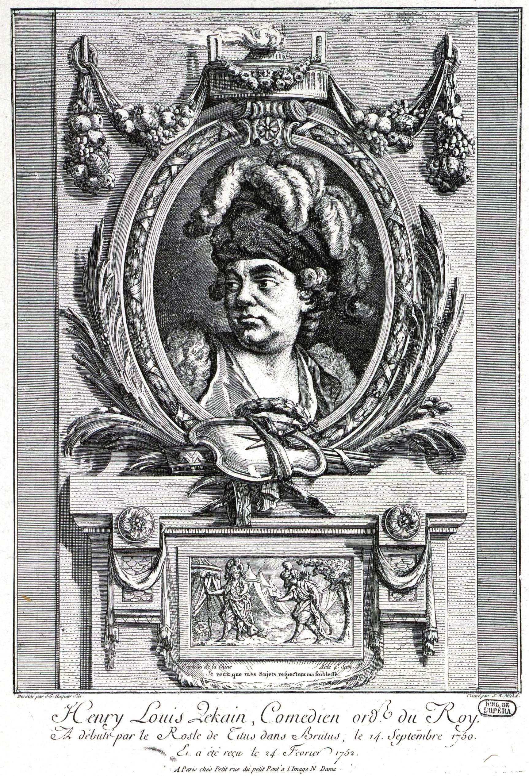 Portrait of the French actor Lekain in the costume of his debut role of Titus in Voltaire's Brutus (14 September 1750, Comédie-Française; accepted as a member of the company on 24 February 1752). The engraving also includes a depiction of Scene 3 of Act 4 from Voltaire's L'Orphelin de la Chine, first performed at the Comédie-Française on 20 August 1755 with Lekain in the leading role of Ghengis Khan.